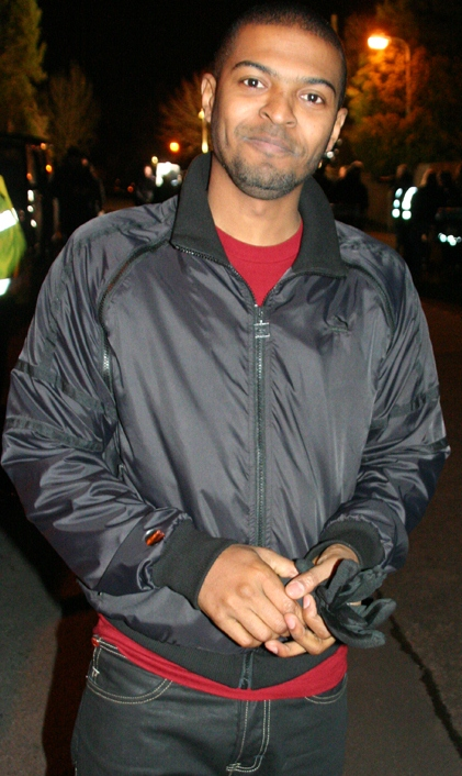 Dr Who allie Mickey Smith, as portrayed by Noel Clark. March 2008